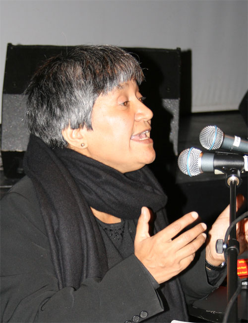 Nepalese politician Hisila Yami speaking at a seminar in Oslo